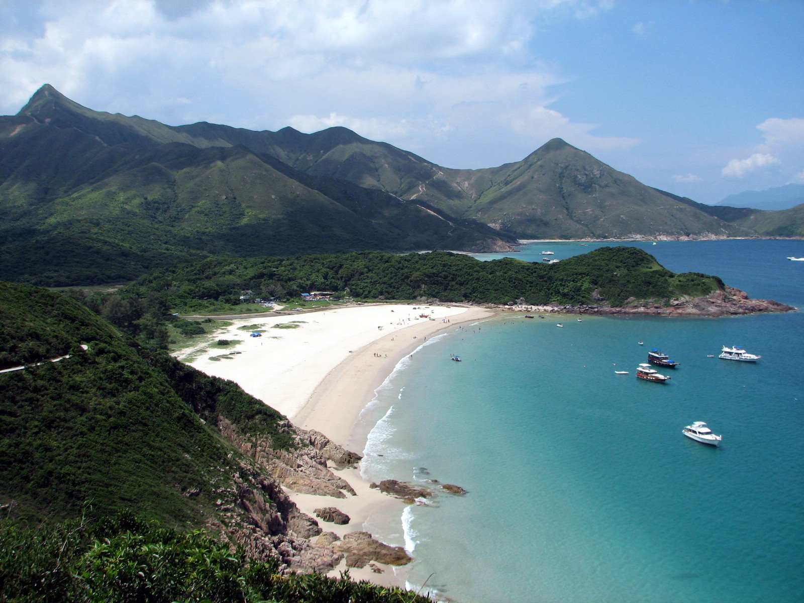 Ham Tin Wan